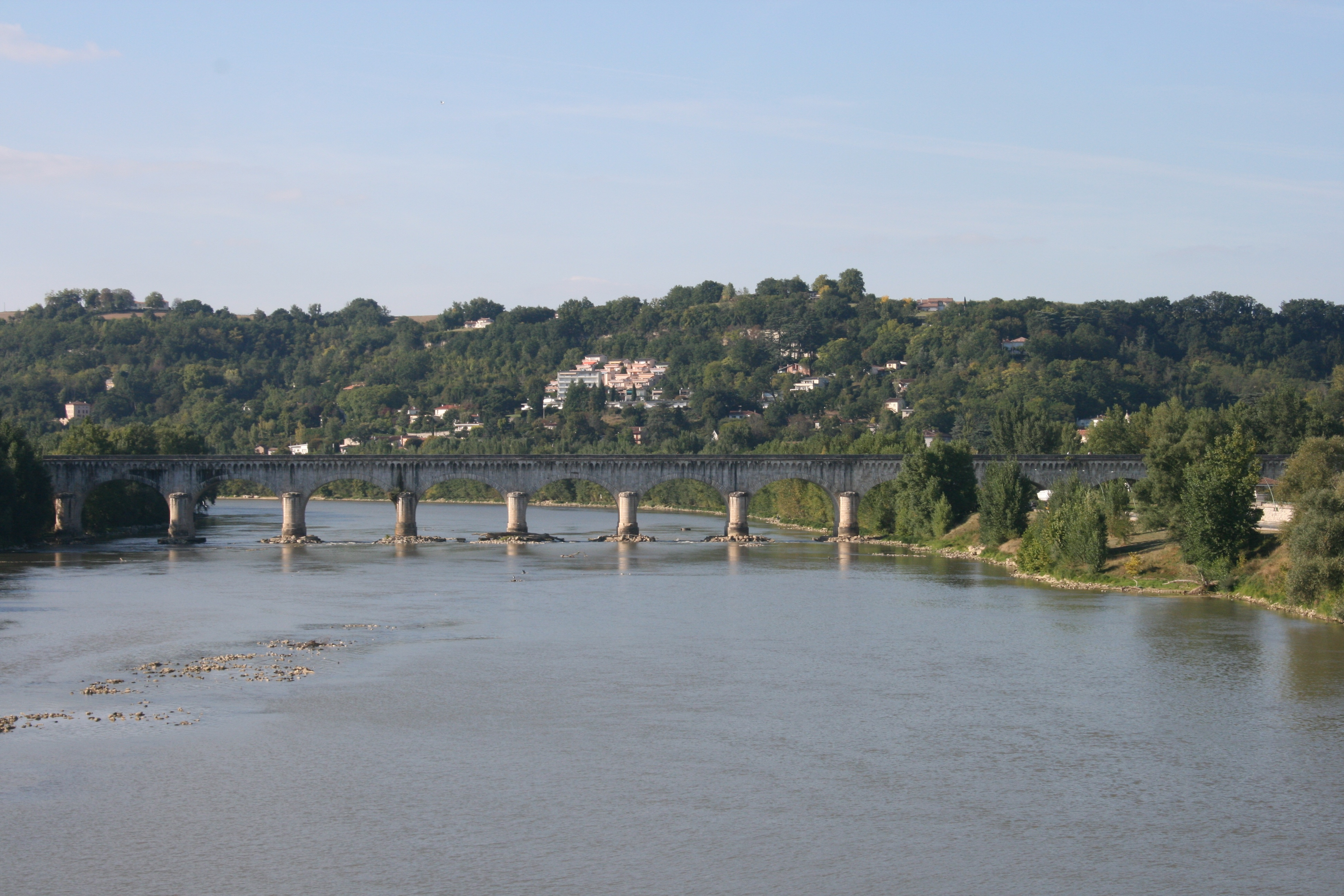 Agen canal bridge, Agen, France